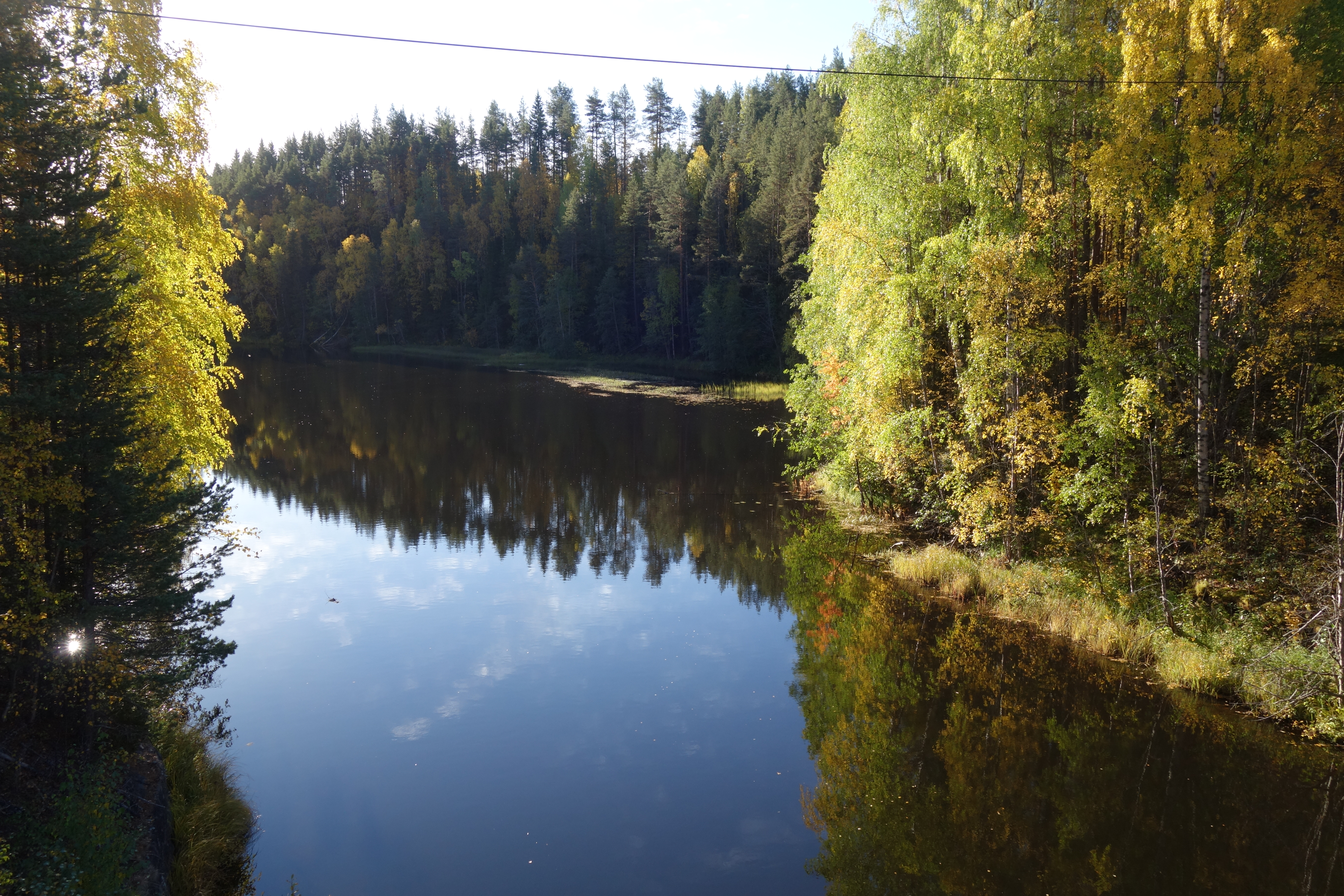 River Petikån close to the power station in Petiknäs.